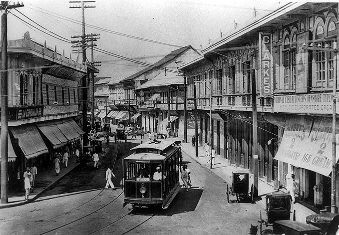 Manila streetcar, early 1900's.